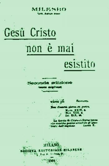 Cover of Emilio Bossi's work, "Gesù Cristo non è mai esistito" (Jesus Christ never existed)